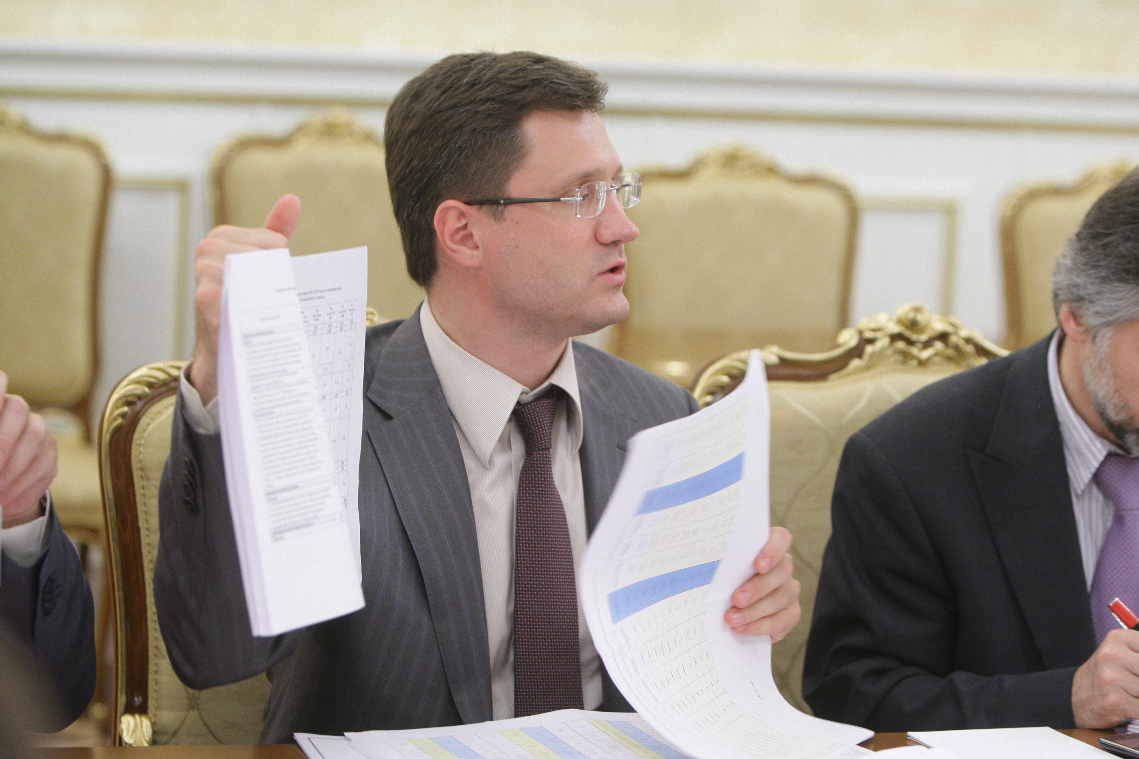 Deputy Minister of Finance Alexander Novak at the meeting to discuss fiscal policy for 2011 and the planned period of 2012 and 2013